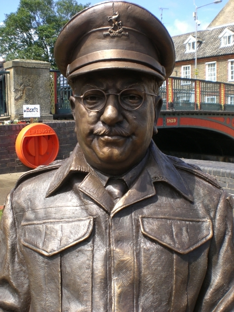 Close-up of the Captain Mainwaring statue in Thetford, Norfolk. This statue of Arthur Lowe's ‘’Dad's Army’’ character was unveiled on 19th June 2010.